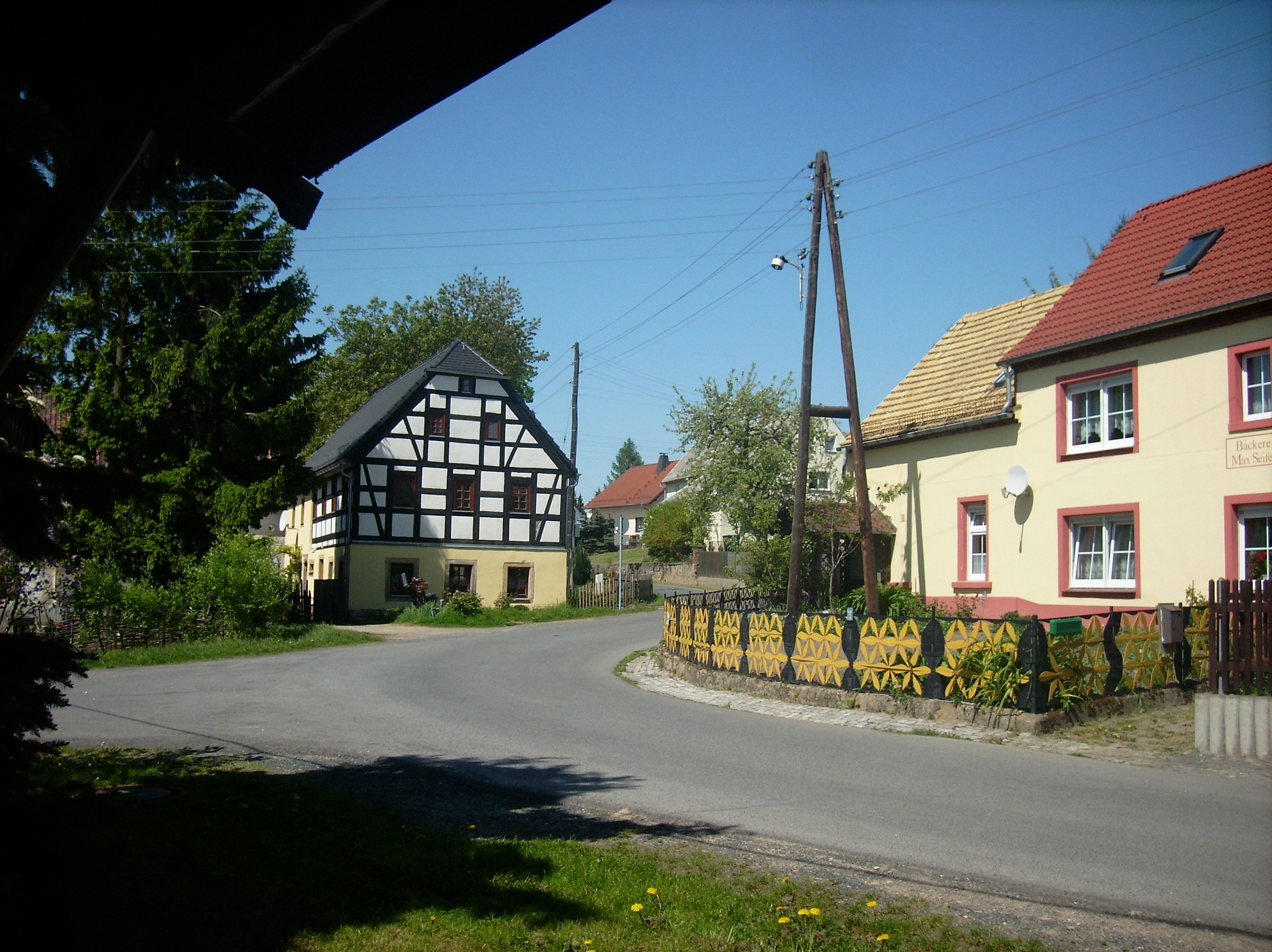 In Präbschütz (Mochau, Mittelsachsen district, Saxony)